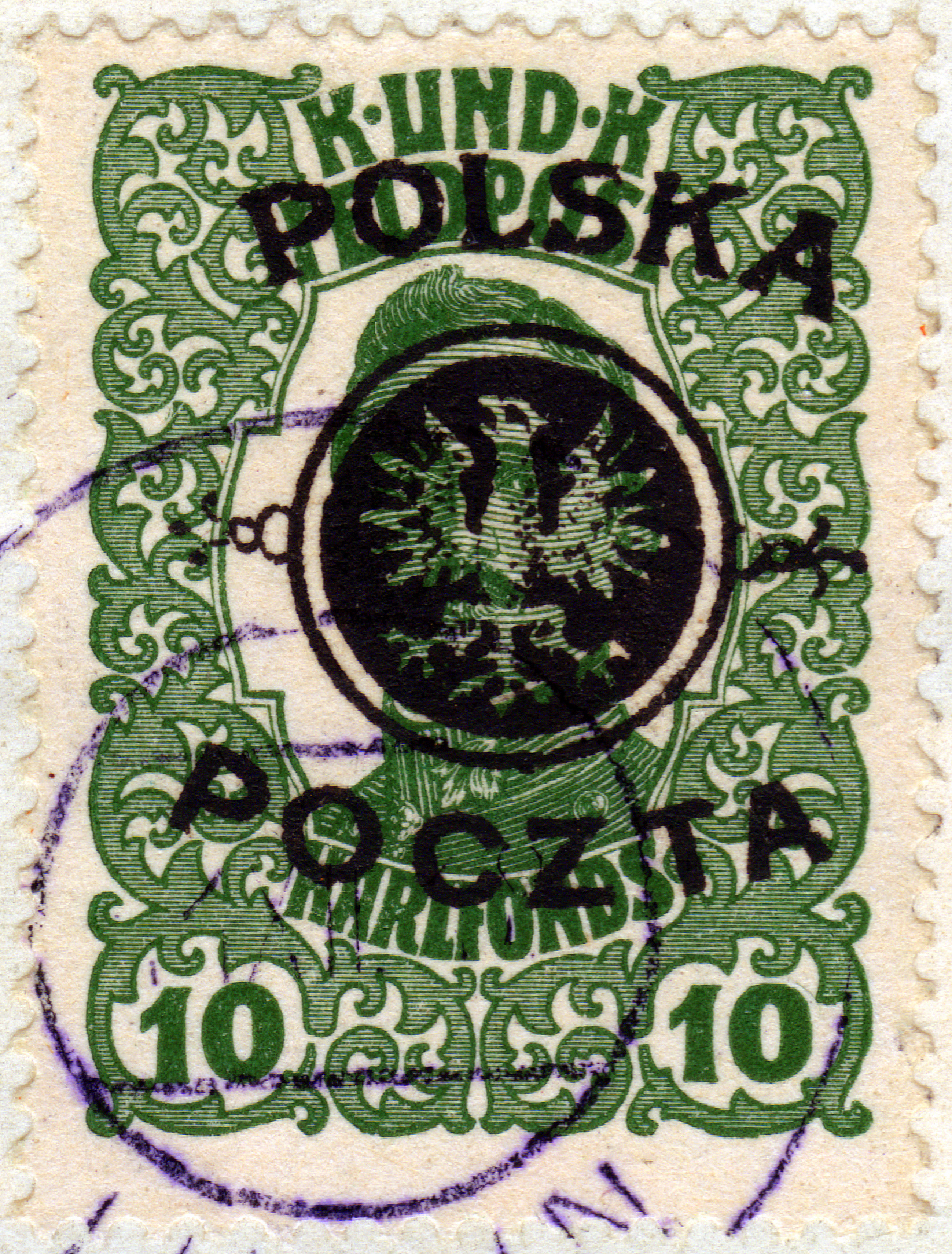 First "Lublin issue". Overprint on Austro-Hungary Military Post stamps